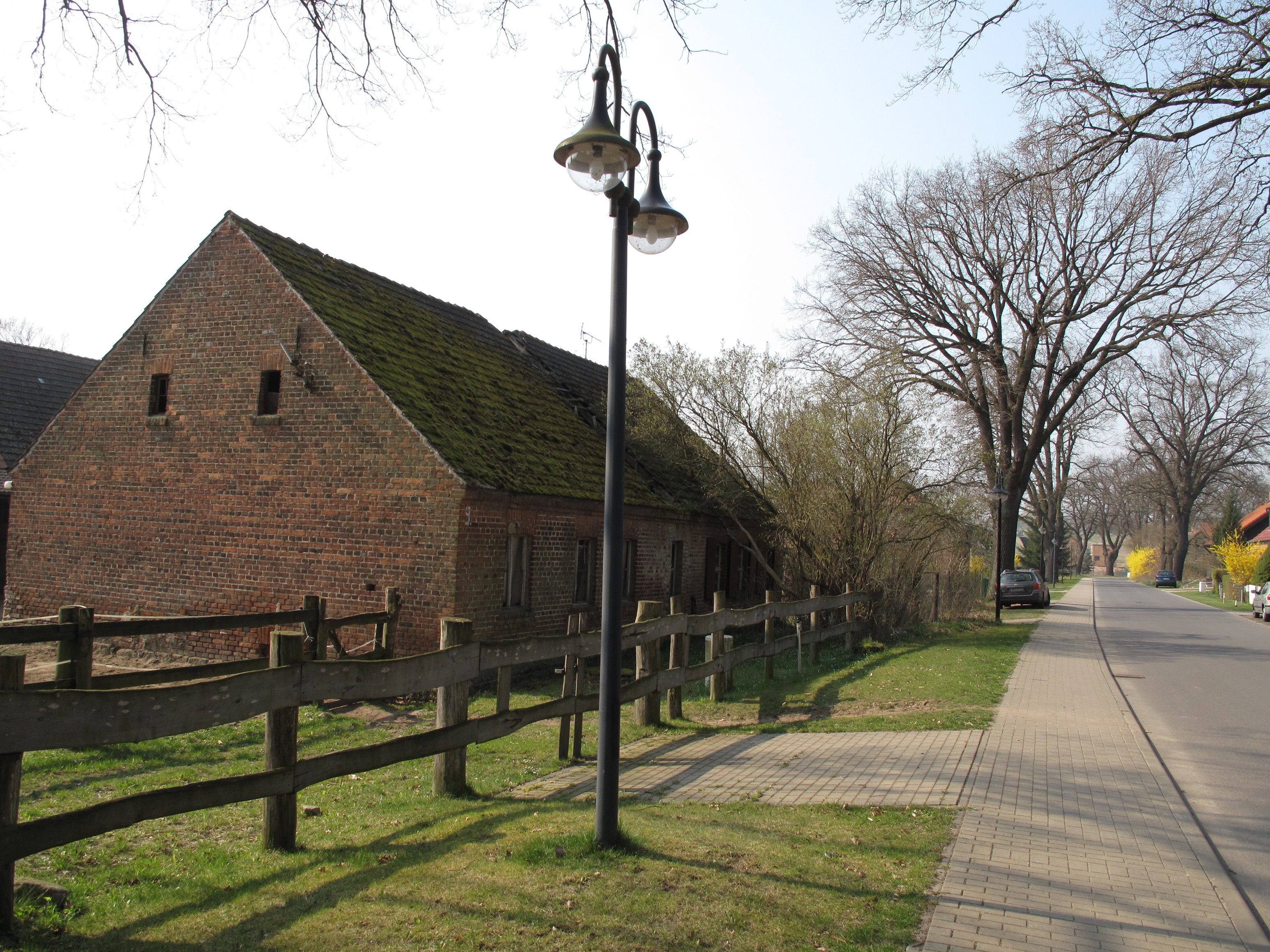 Village street Silberberg. Silberberg is a part (settlement, estate; german: Wohnplatz) of Bad Saarow, District Oder-Spree, Brandenburg, Germany. The former manor and manor district (german: Gutsbezirk) is situated in a hilly country approximately 1,5 kilometers west of the Scharmützelsee. Silberberg was incorporated into Bad Saarow in 1928.